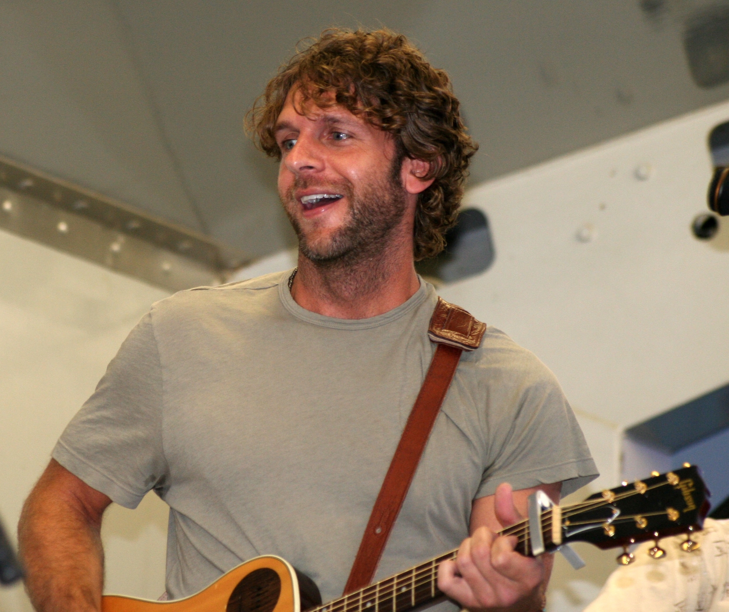 Billy Currington in performance.